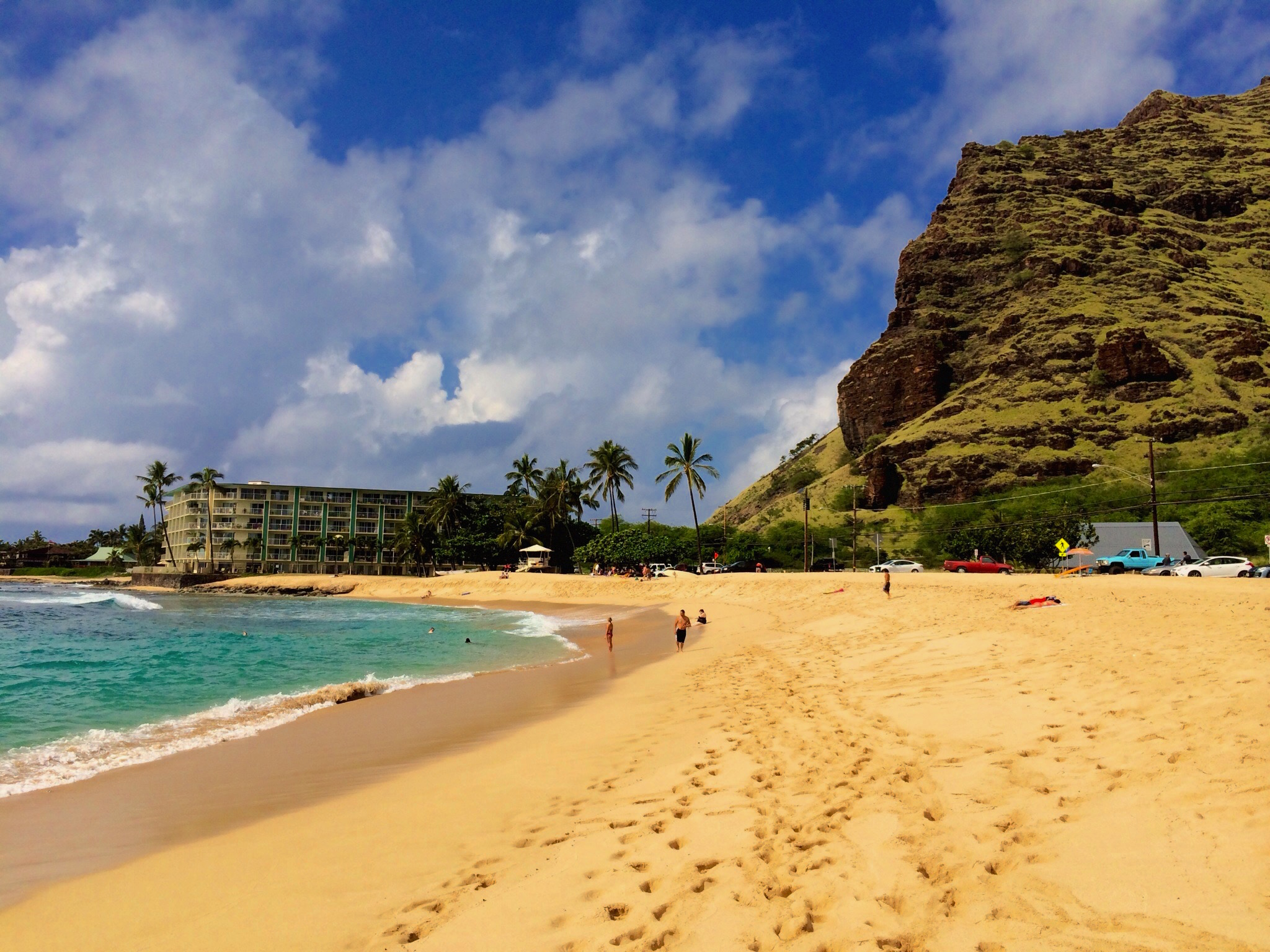 Mākaha Beach Park with the slopes of the Waiane Mountains on the right.